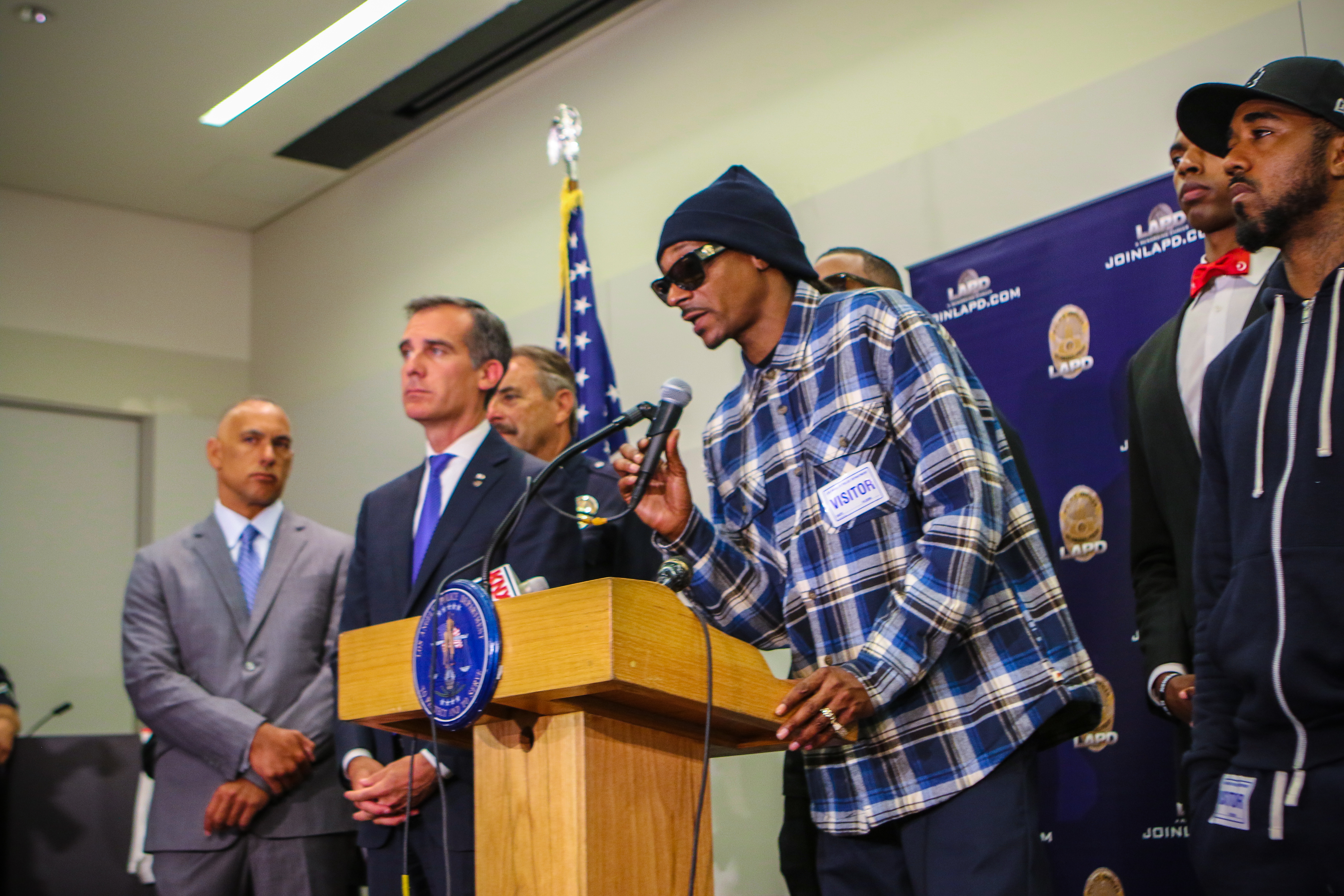 Snoop Dogg speaking at a press conference with LAPD Chief Beck, Mayor Garcetti, The Game, and community members after the police ambush in Dallas